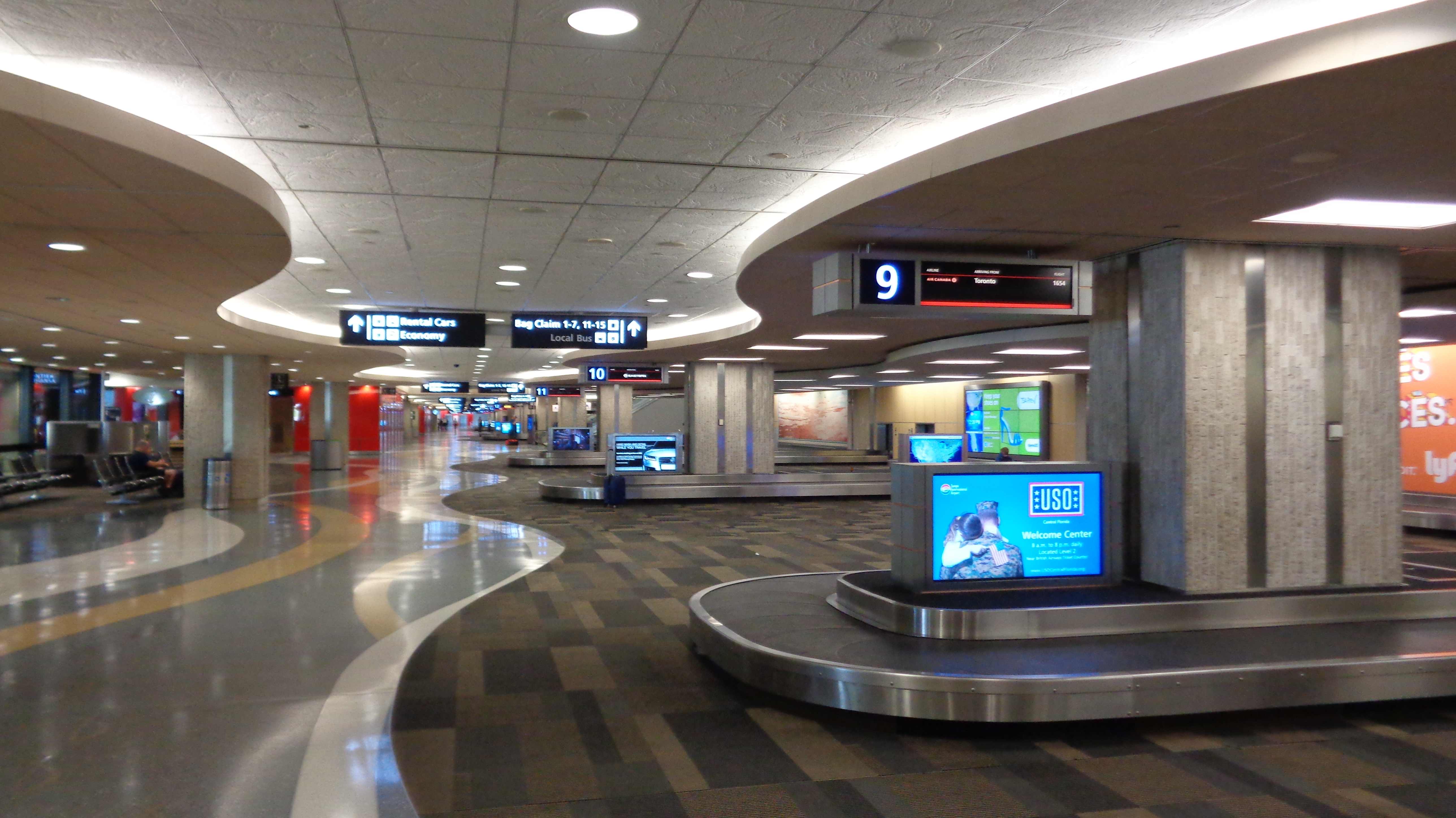 Tampa International Airport in Tampa, Florida.